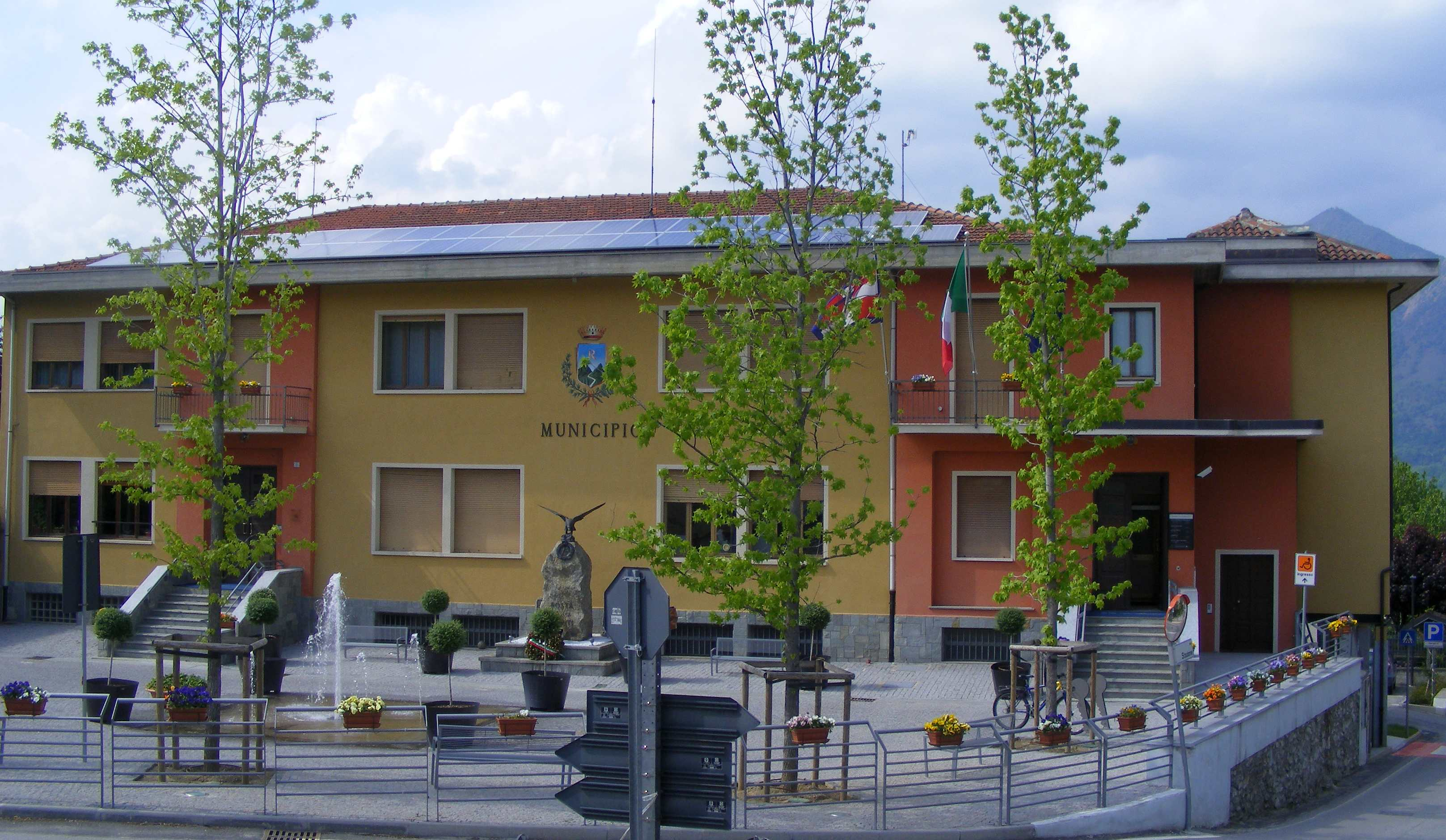 Rosta (TO, Italy): town hall; in its right the summit of Mount Musinè